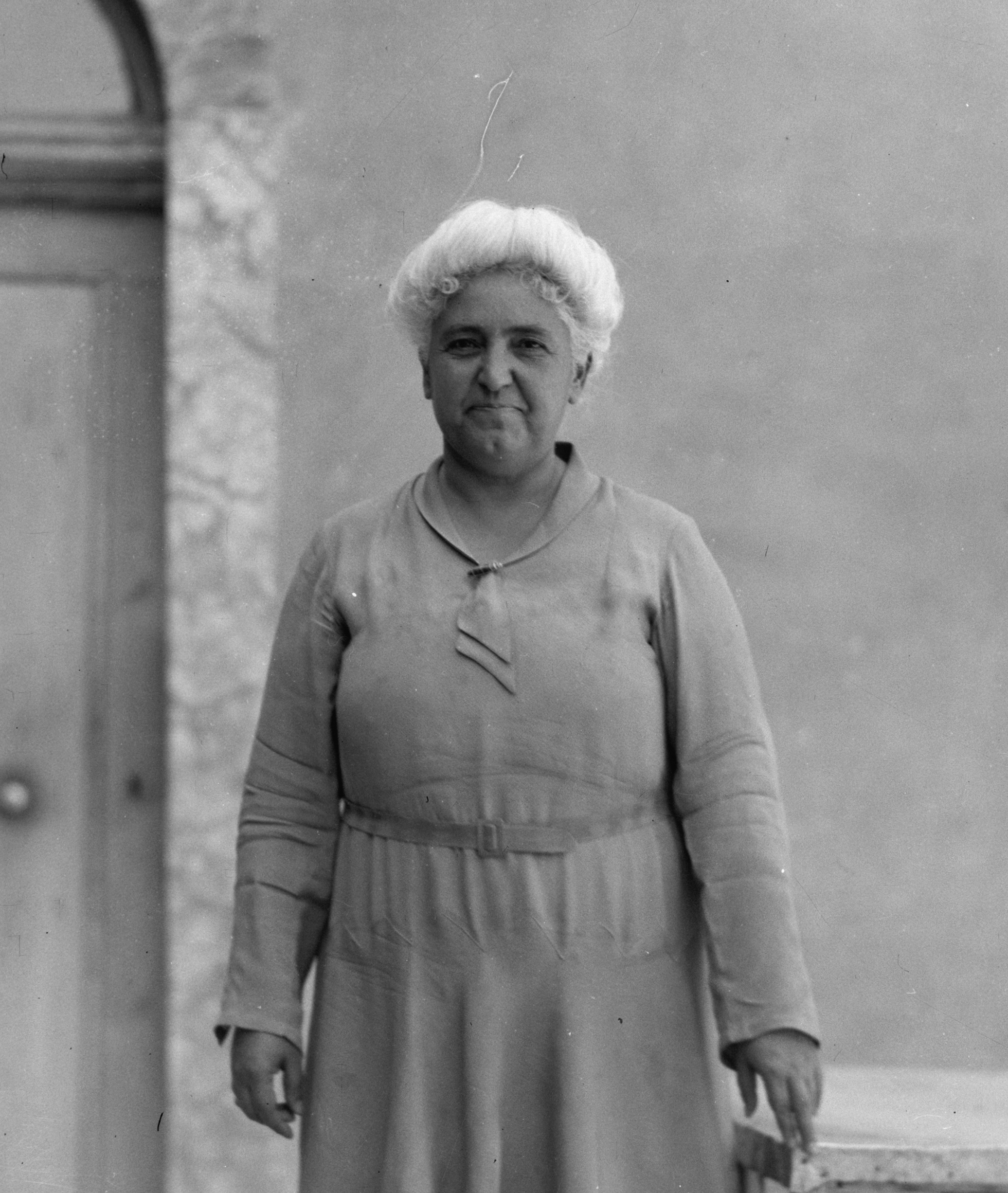 The Lady Surrma of the Assyrian community in Mosul